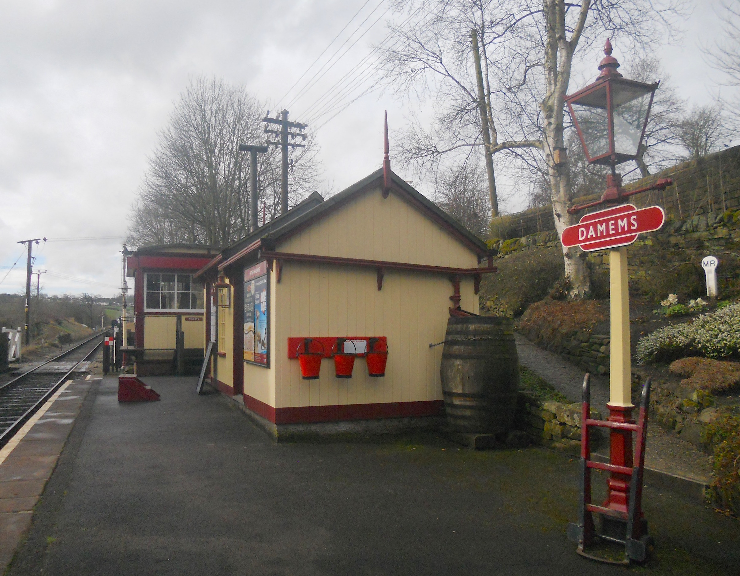 Damems Station on the Keighley and Worth Valley Railway. This station has the distinction of being the smallest Standard Gauge station in Great Britain.